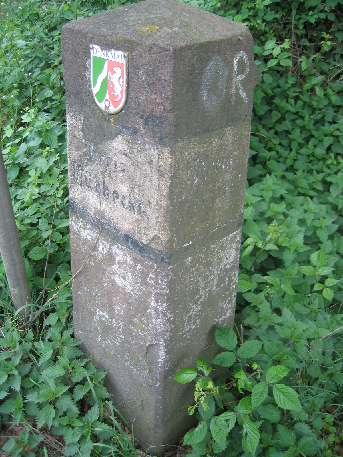 Old boundary stone between districts of Herford and former Lübbecke district in between Preußisch Oldendorf, District of Minden-Lübbecke, and Rödinghausen, District of Herford, North Rhine-Westphalia, Germany.